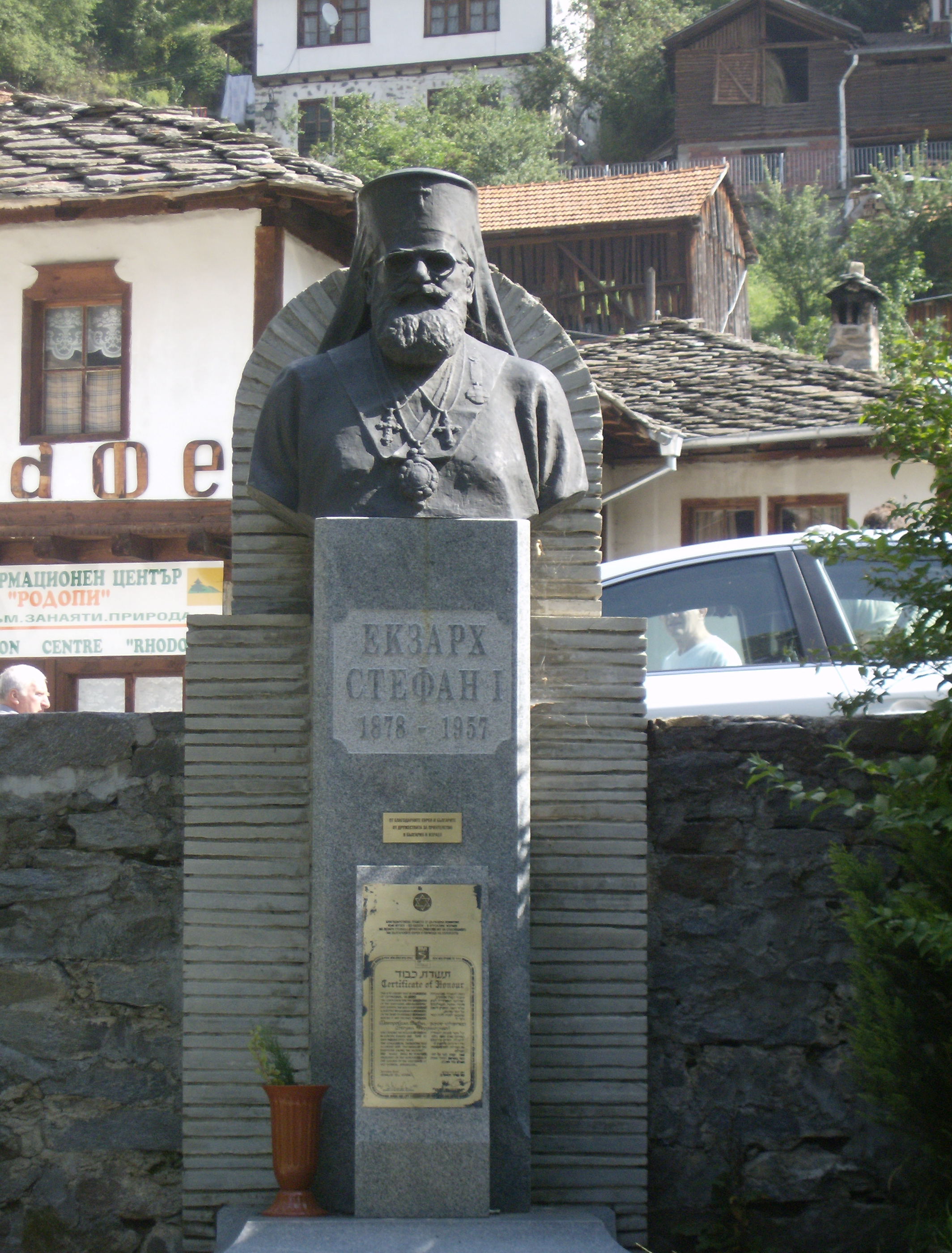 Exarch Stefan I